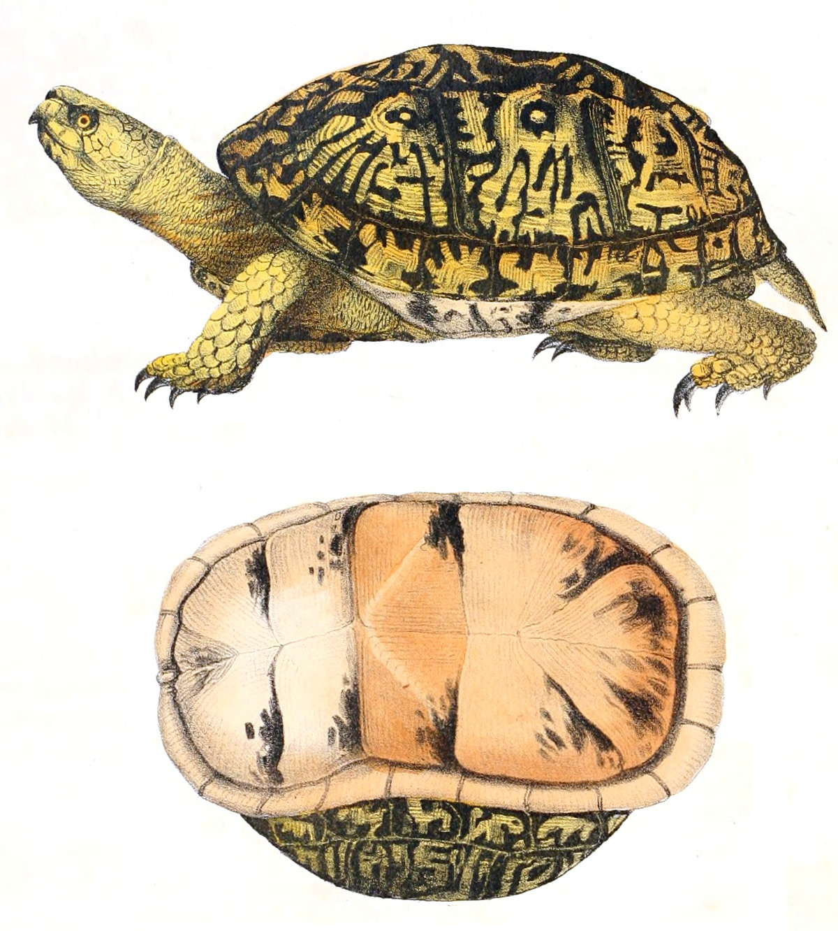 Eastern Box Turtle , Terrapene carolina